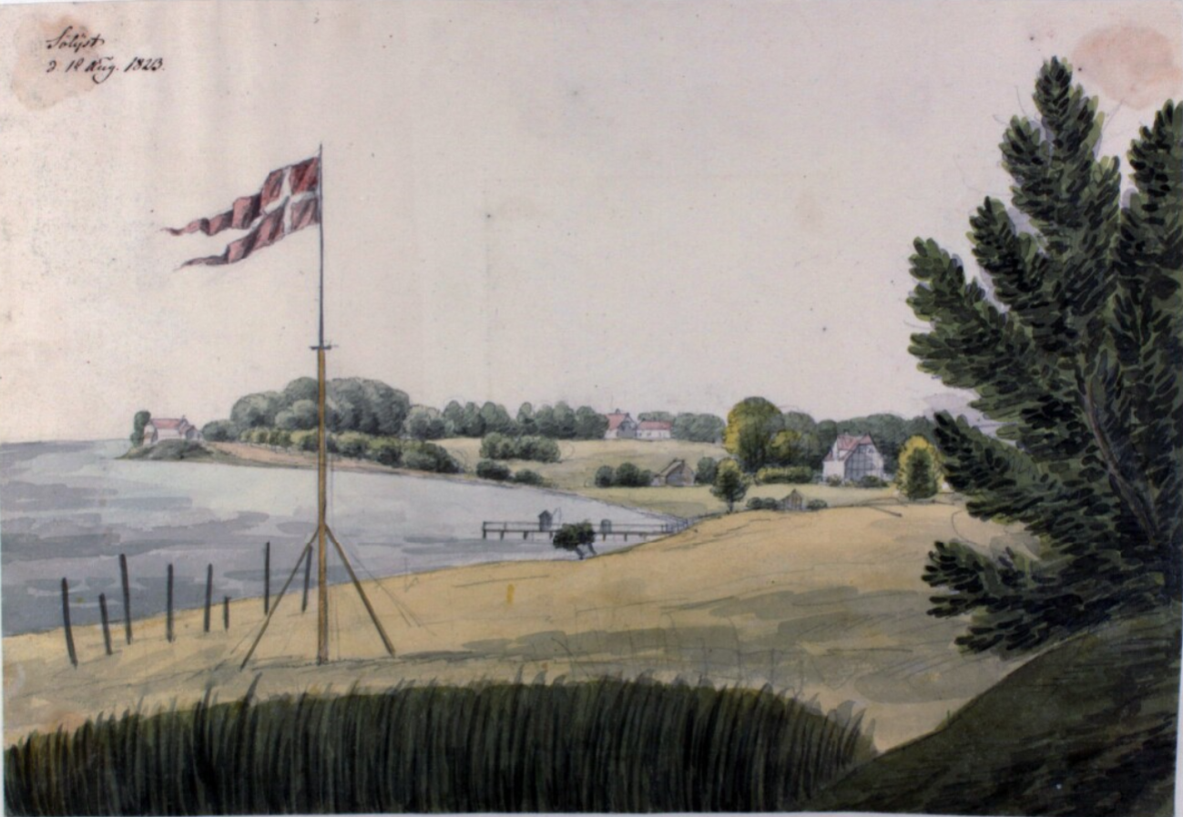 Sølyst to the north of Copenhagen, Denmark